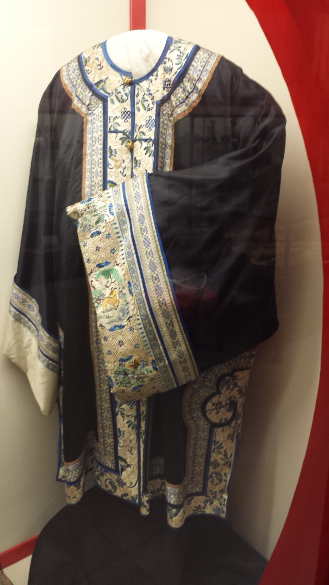 William Collins, photo